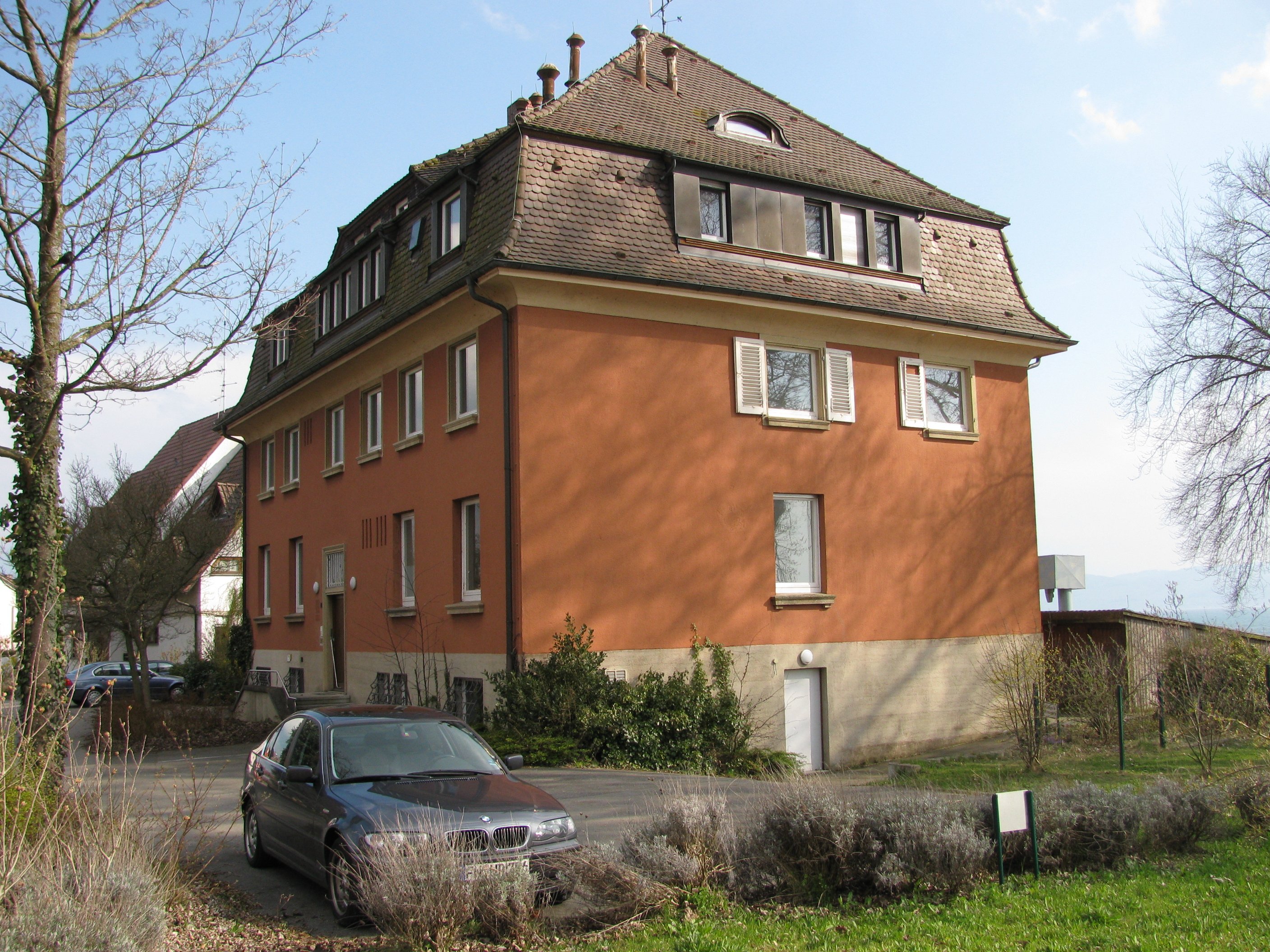 Germany - Baden-Württemberg - Bodenseekreis - Langenargen: Institut für Seenforschung (ISF), [old buildng in the 'Untere Seestraße']